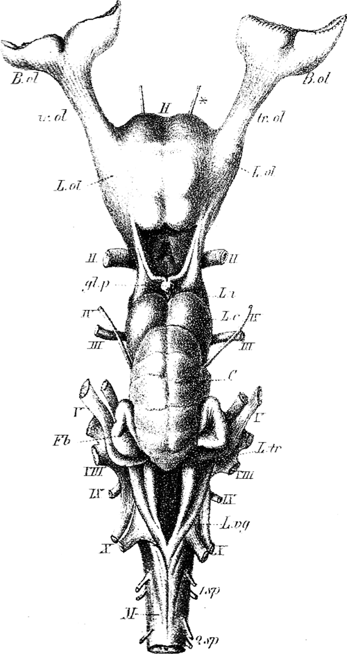 Cranial nerve 0 seen as an asterisk, the original image from 1878 by Gustav Fritsch. ‘‘u¨berza¨hliger nerv,’’ 1878